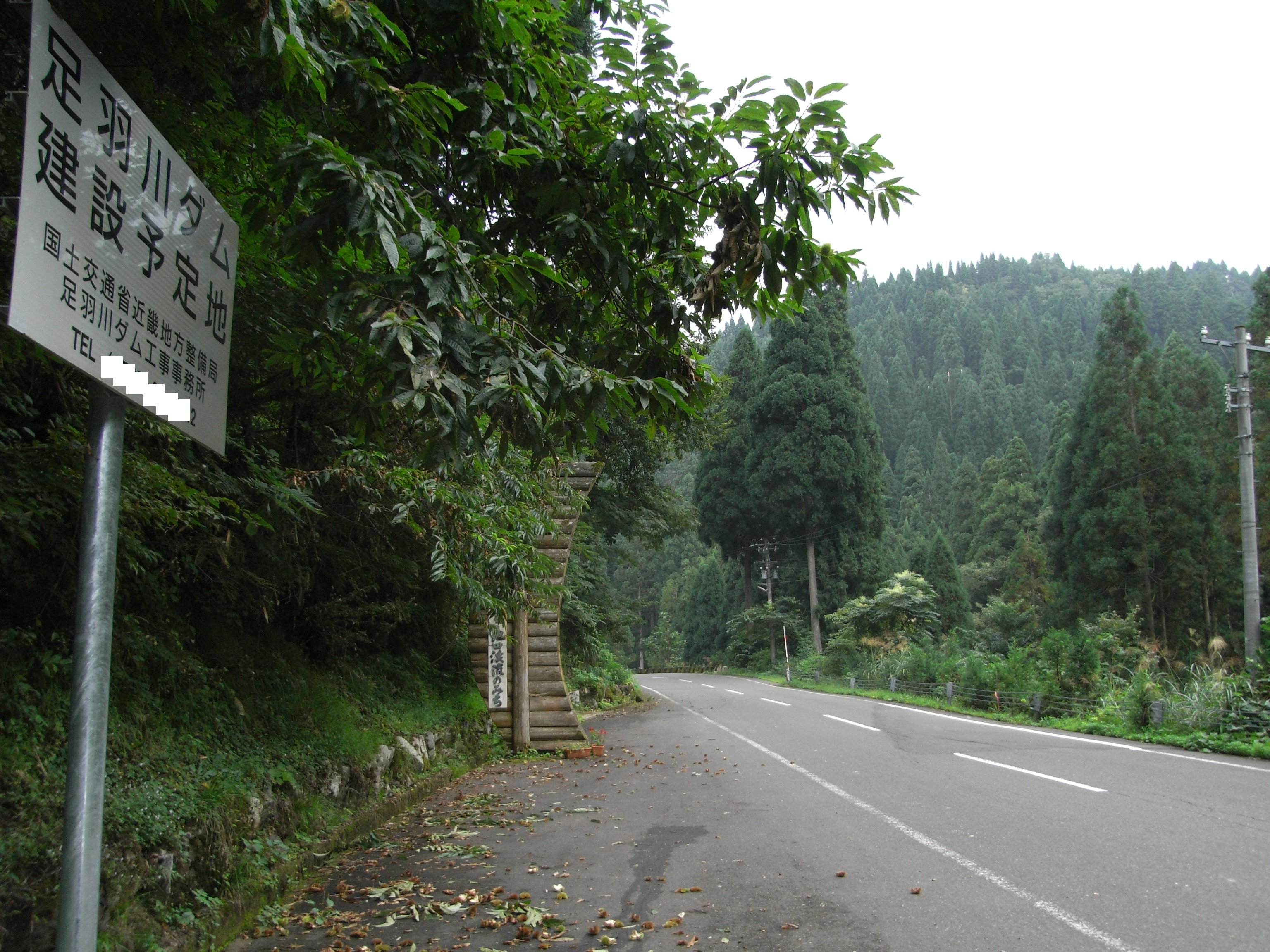 Asuwagawa Dam(Bekogawa river/Fukui Pref./Japan)